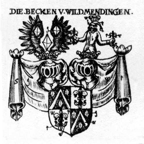 Coat of Arms of Beck von Wildmendingen